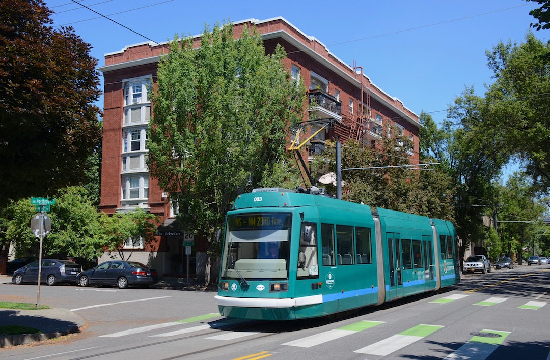 Car 003 of the Portland Streetcar system, a 2001 Škoda/Inekon 10T, westbound on NW Northrup Street at 20th Avenue, near the end of a northbound trip on the NS Line. The Belvedere apartments are in the background. Car 003 was one of the five streetcars that opened the Portland Streetcar system in 2001, and this location was along the original portion of that first line (which was later extended, at its opposite end).